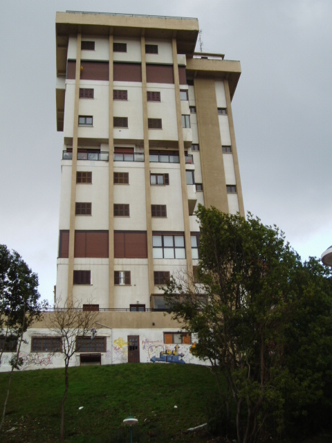 Vista Alegre Tower in Zarautz (Gipuzkoa).